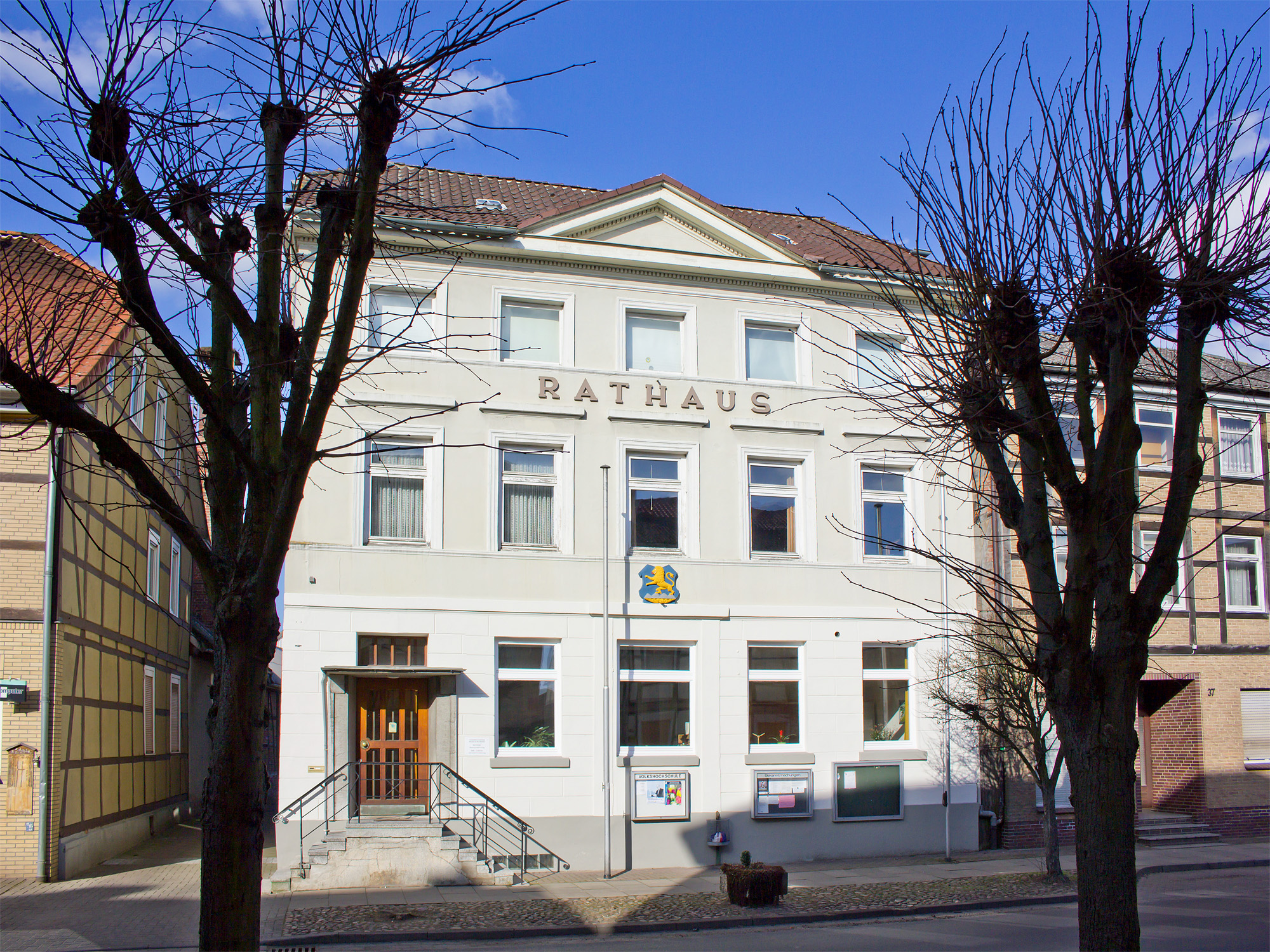 Building "Breite Strasse 35" (town hall) in Bergen/Dumme (district Lüchow-Dannenberg, northern Germany); a cultural heritage monument.